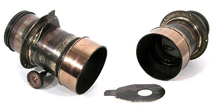 A Dallmeyer lens with Waterhouse stop, courtesy of Seth Broder of Camera Eccentric ( which grants, via his email to me, a CC 2.5 attribution-sharealike license. He writes: "The lens is an early Dallmeyer Soft Focus Series B with a focal length of 8 1/2" and fast maximum aperture of F3 : )"